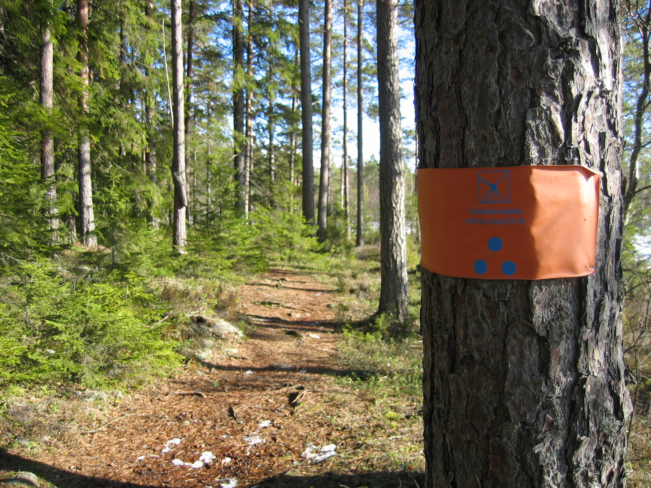 The sign of Kuhankuonon retkelilyreitistö nature trail in Kurjenrahka National Park, Finland